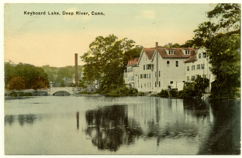 Postcard: Keyboard Lake, Deep River, Connecticut, circa 1906-1916 Description: "Early postcard (1906 to 1916) unused"